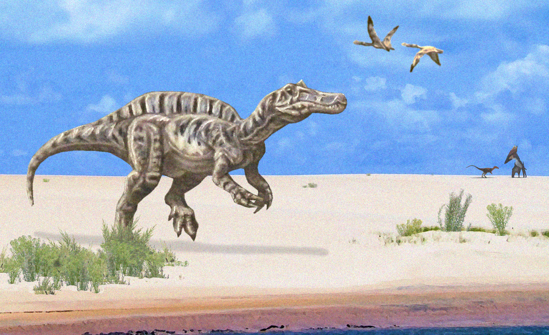 Restoration of the Romualdo Formation environment. Foreground: the spinosaurid theropod Irritator challengeri, background right: the small theropod Mirischia asymmetrica being fended off by the pterosaur Thallasodromeus sethi, above the coastline are two pterosaurs in flight.